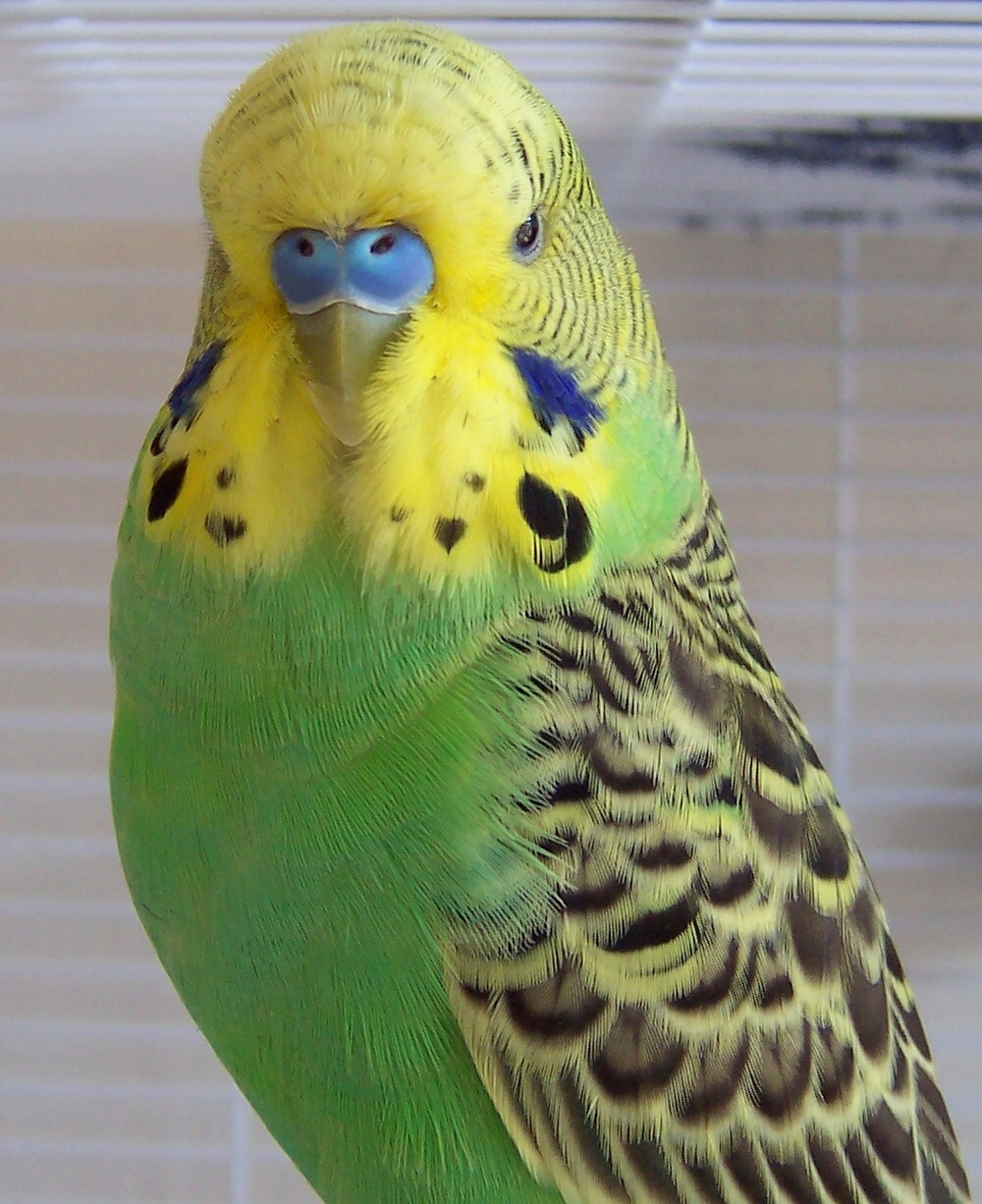 Photograph of male English Budgie taken by User:Althepal. Some rights reserved. Photo by Althepal